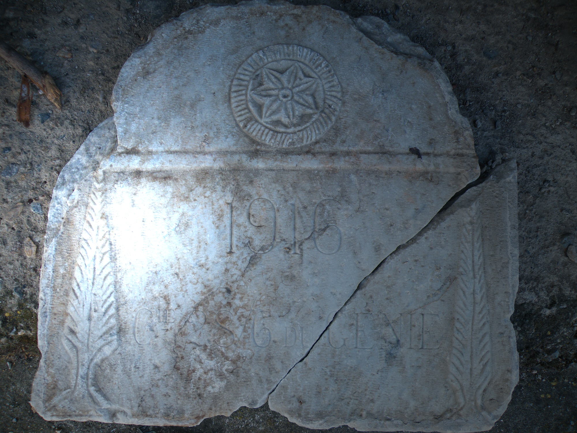 CIE 28/6 DU GENIE 1916 (28e bataillon du génie)